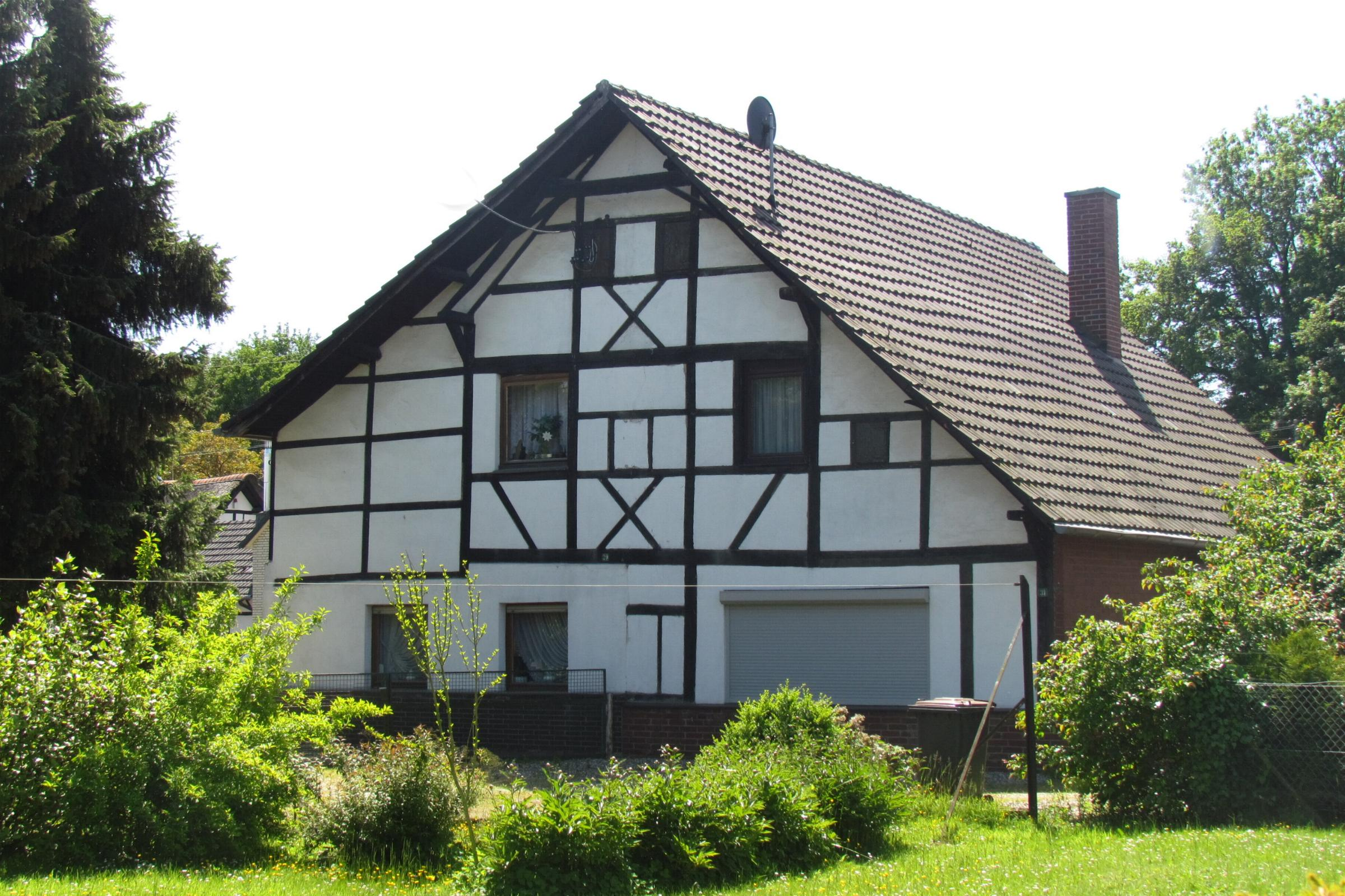 This is a photograph of an architectural monument.It is on the list of cultural monuments of Korschenbroich